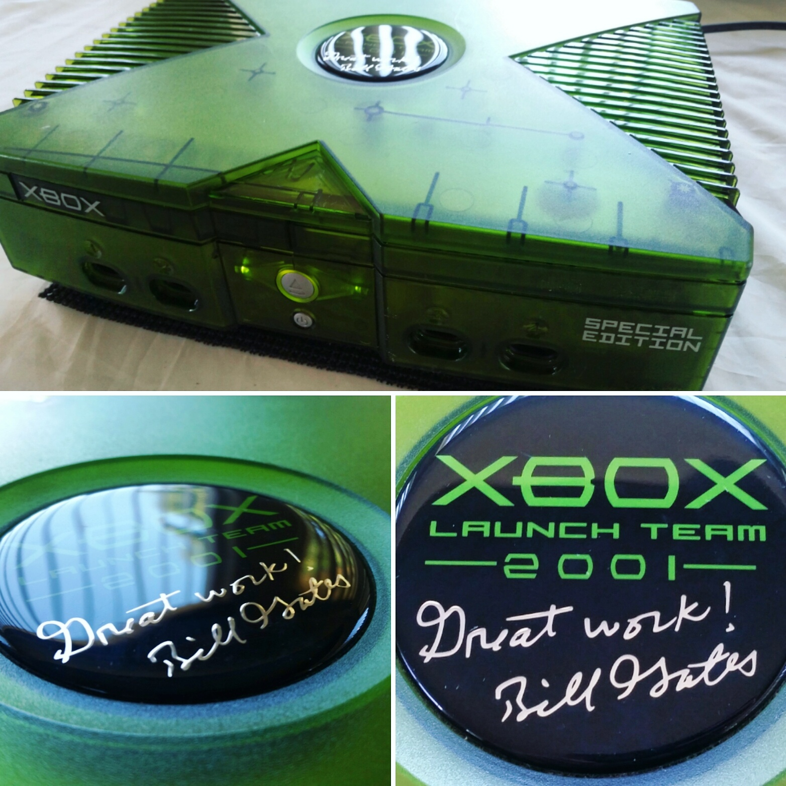 2001 Launch Team Edition original Xbox - multi-image composite